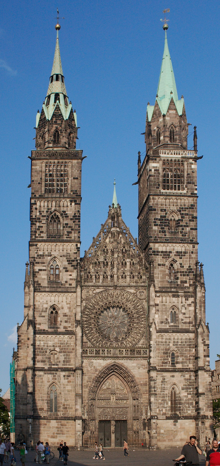 Picture of towers of St. Lorenz in Nuremberg, taken from West.